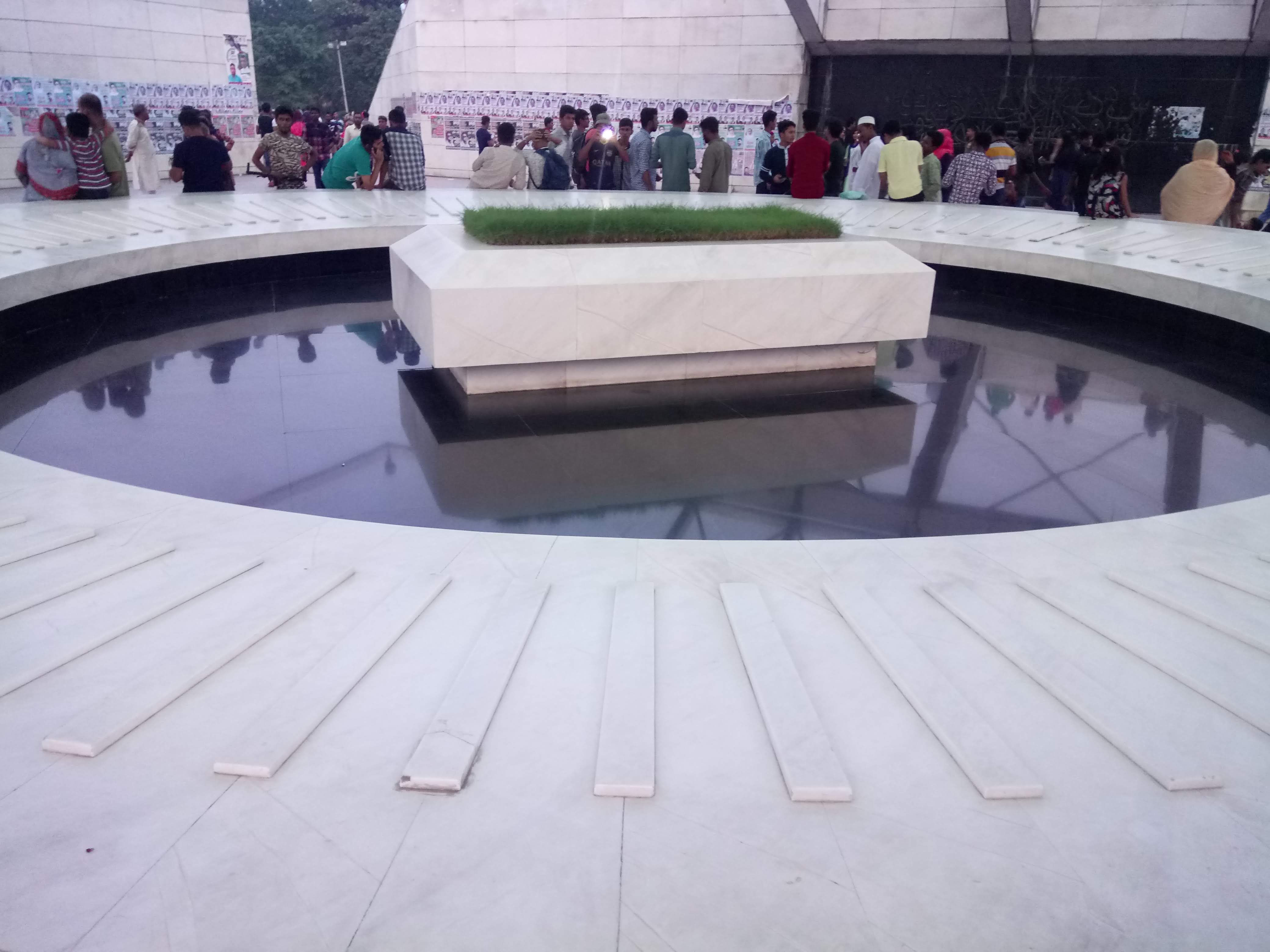 The center of the tomb of Ziaur Rahman, which is 30 feet width, consist of Black and white marble stone. around the tomb four Arabic Writings engraved in the wall are Situated which upholds roof of steel and glass.